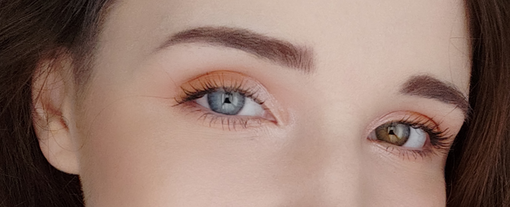 This photo shows how heterochromia iridis looks like.